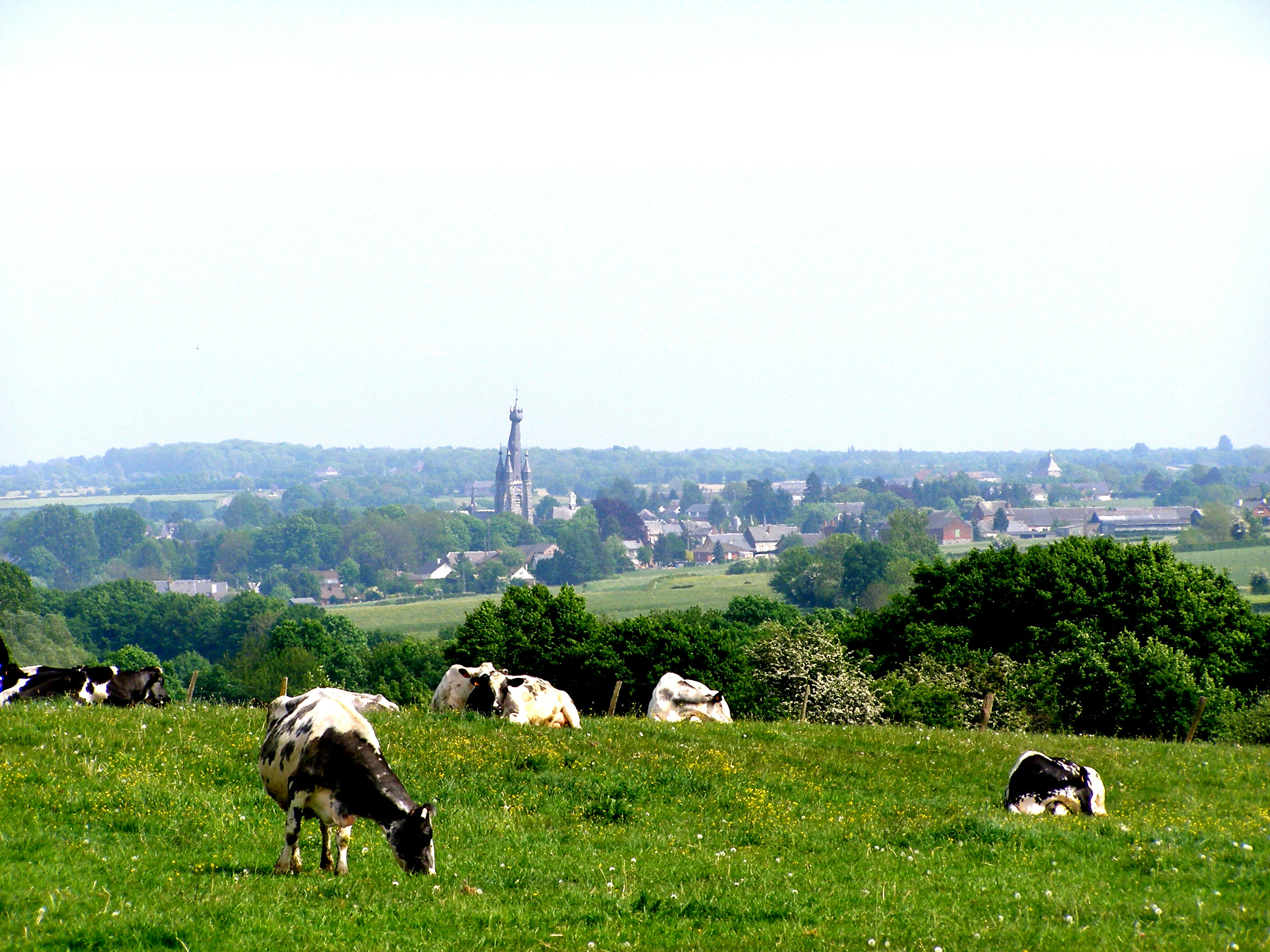 Solre The Castle and the surrounding countryside.